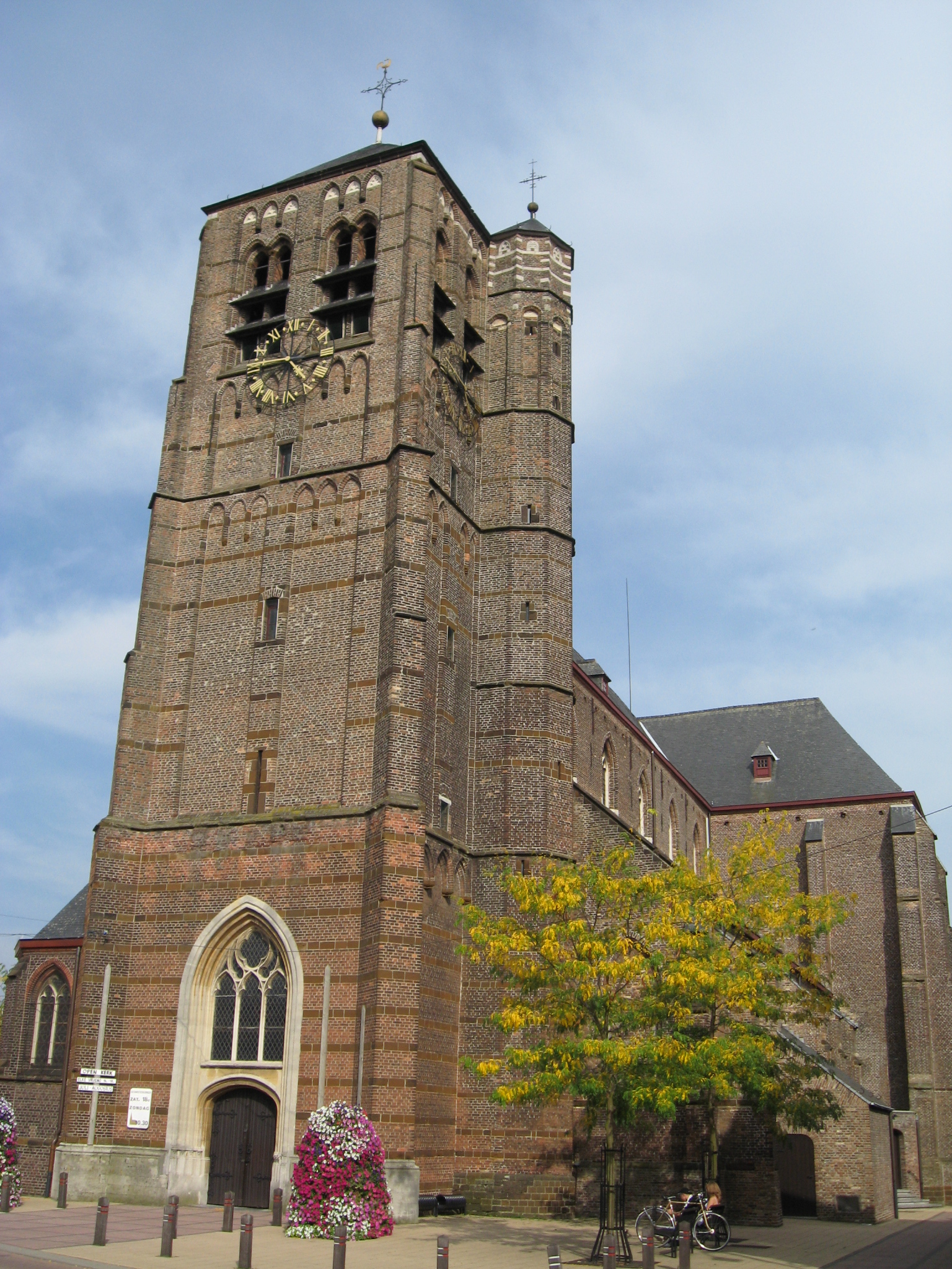 Church of Saint Andrew in Balen, Antwerp, Belgium Lld: Sint-Andrieskerk in Balen